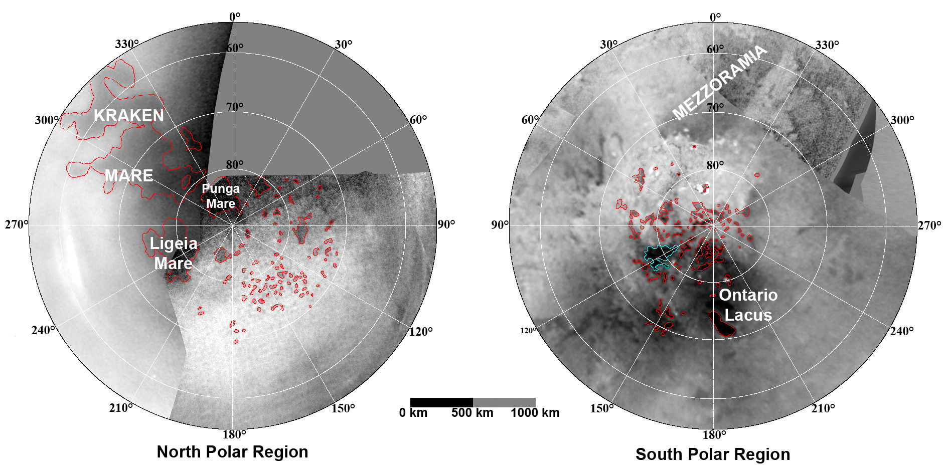 These updated maps of Saturn’s moon Titan, consisting of data from the Cassini Imaging Science Subsystem, include Cassini's August 2008 images of the moon's north polar region. Evidence from Cassini's Imaging Science Subsystem, RADAR, and Visual and Infrared Mapping Spectrometer instruments strongly suggests that dark areas near the poles are lakes of liquid hydrocarbons -- an analysis affirmed by images capturing changes in the lakes thought to be brought on by rainfall. Colored lines in the polar portions of these maps illustrate the boundaries between surface regions having different albedos -- or differences in surface brightness -- which Cassini scientists have interpreted as potential shorelines. Blue outlines indicate features that changed between observations made one year apart (see PIA11147). The map at left is a north polar projection showing latitudes 55 degrees to 90 degrees. The right map is a south polar projection showing latitudes minus55 degrees to minus90 degrees. The maps are compiled from images dating from April 2004 through August 2008, and their resolutions vary from several hundred meters to a few tens of kilometers. Brightness variations are due to differences in surface albedo rather than topographic shading. The original NASA map of Titan has been cropped to show only the polar regions.